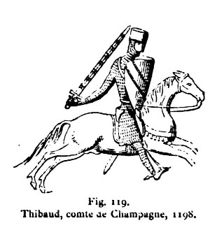 Theobald, Count of Champagne - 1198